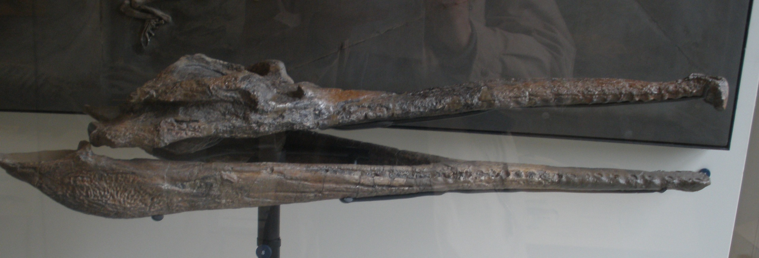 fossil of Teleorhinus, an extinct crocodile